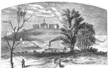 East Tennessee University, now the University of Tennessee, atop the Hill in Knoxville, Tennessee, USA, as sketched in 1874.